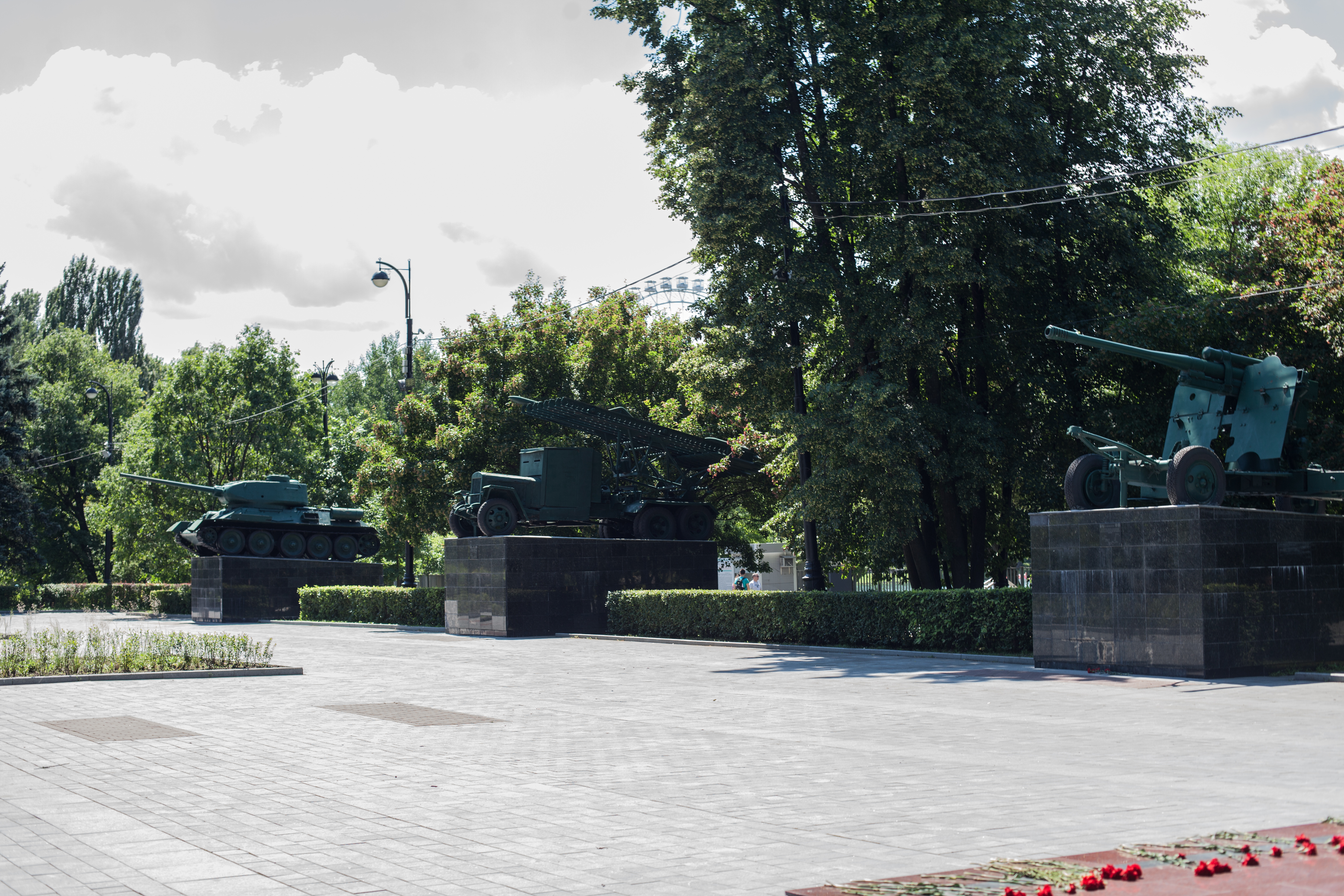 Memorial in Moscow park